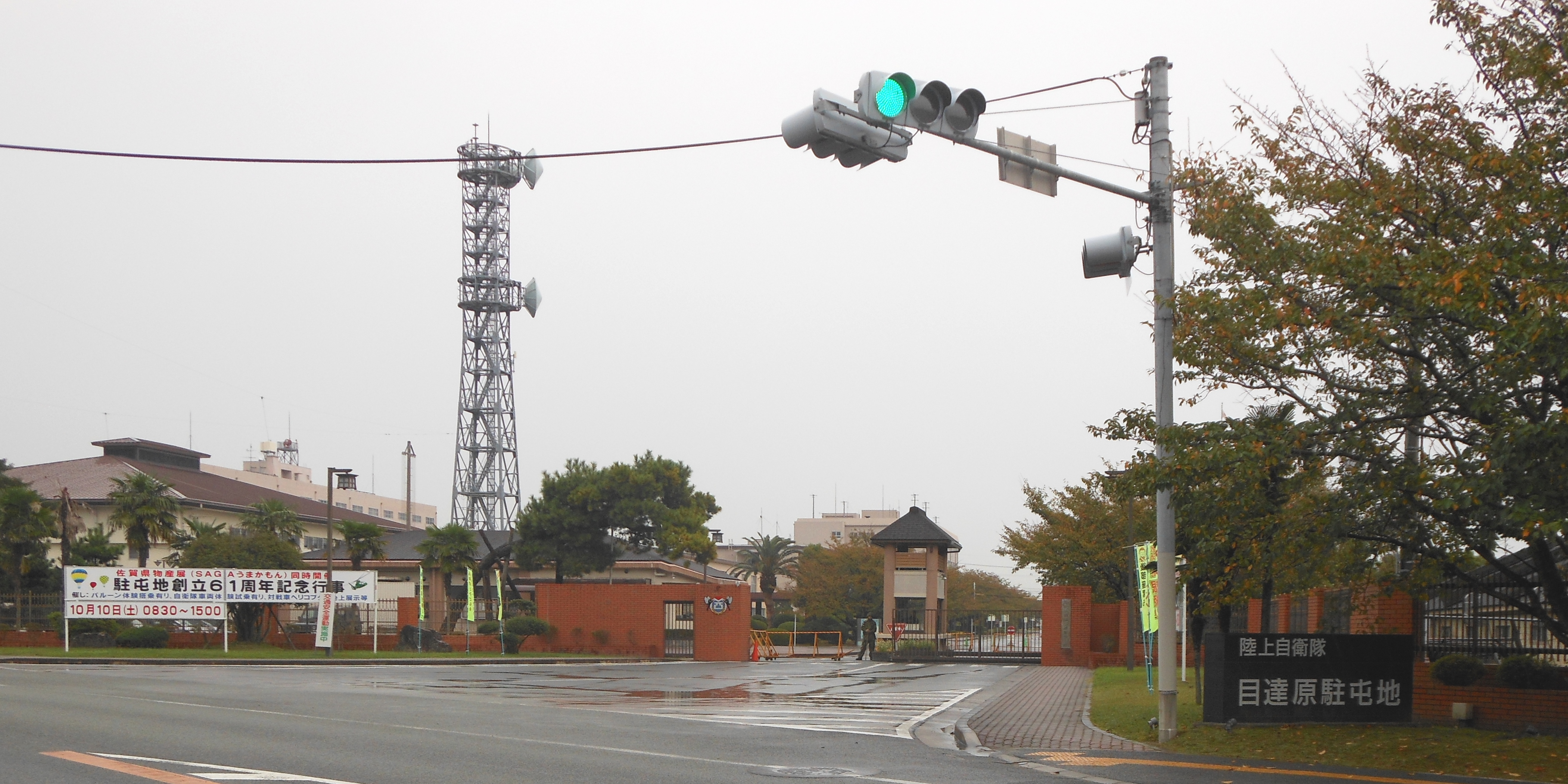 Front of Japan Ground Self-Defense Force(JGSDF) Camp Metabaru, in Yoshinogari town, Saga prefecture, japan.